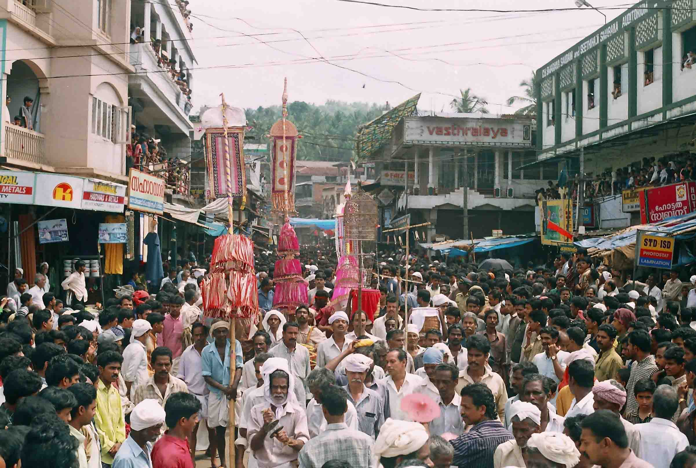 'Kondotty Nercha' a worship based festival once took place at Kondotty. Picture shows the 'Pettivaravu' part of festival.